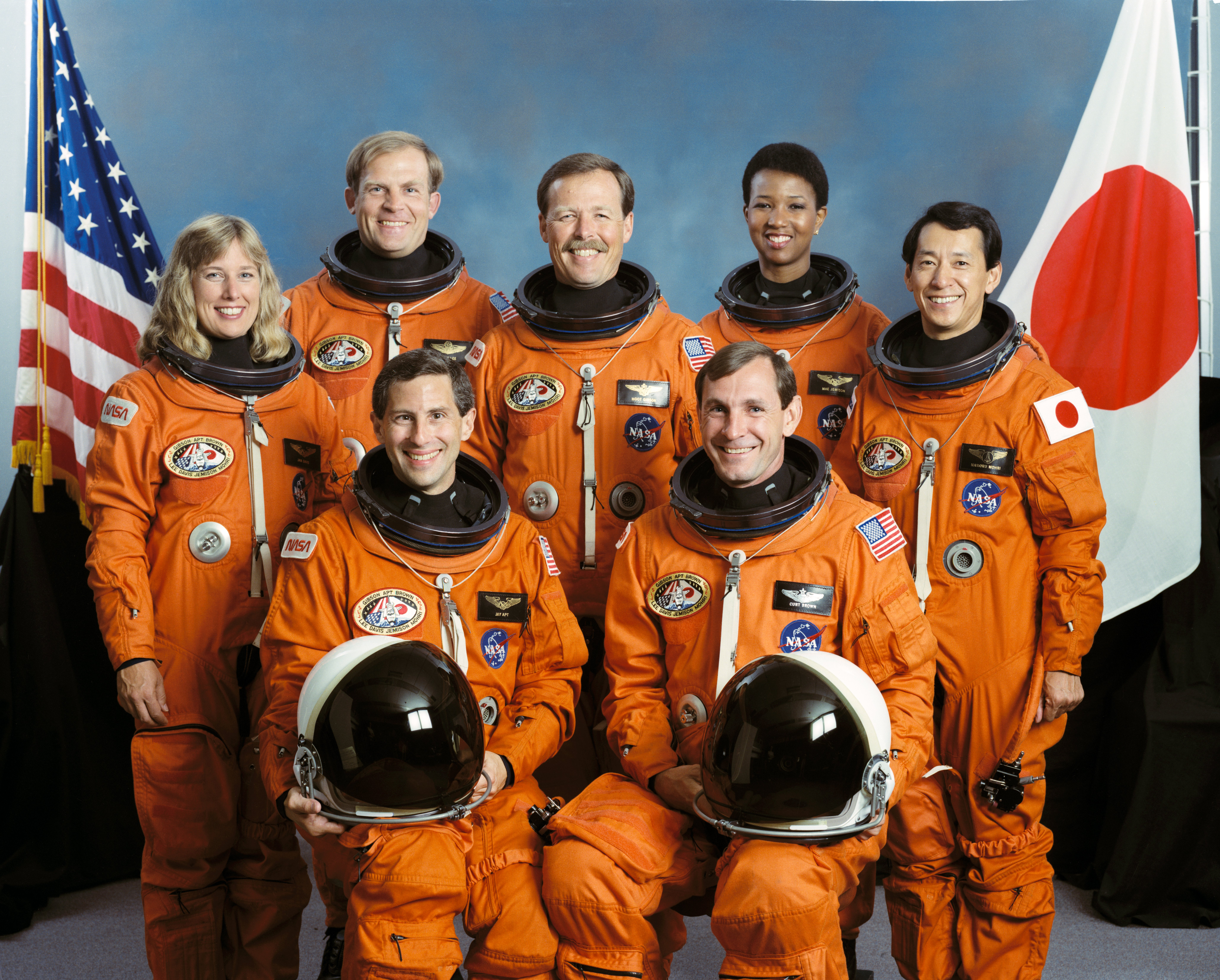 STS-47 Endeavour, Orbiter Vehicle (OV) 105, Official portrait includes the seven crewmembers wearing launch and entry suits (LESs). These seven crewmembers are currently in training for the STS-47 Spacelab J (SLJ) mission scheduled for later this year. Pictured are (left to right, front) Mission Specialist (MS) Jerome Apt and Pilot Curtis L. Brown, Jr (both holding launch and entry helmets (LEHs)); and (left to right, rear) MS N. Jan Davis, MS and Payload Commander (PLC) Mark C. Lee, Commander Robert L. Gibson, MS Mae C. Jemison, and Japanese Payload Specialist Mamoru Mohri. Mohri is representing the National Space Development Agency of Japan (NASDA). In the background are the flags of the United States (U.S.) and Japan. Portrait was made by NASA JSC contract photographer Robert G. Markowitz.